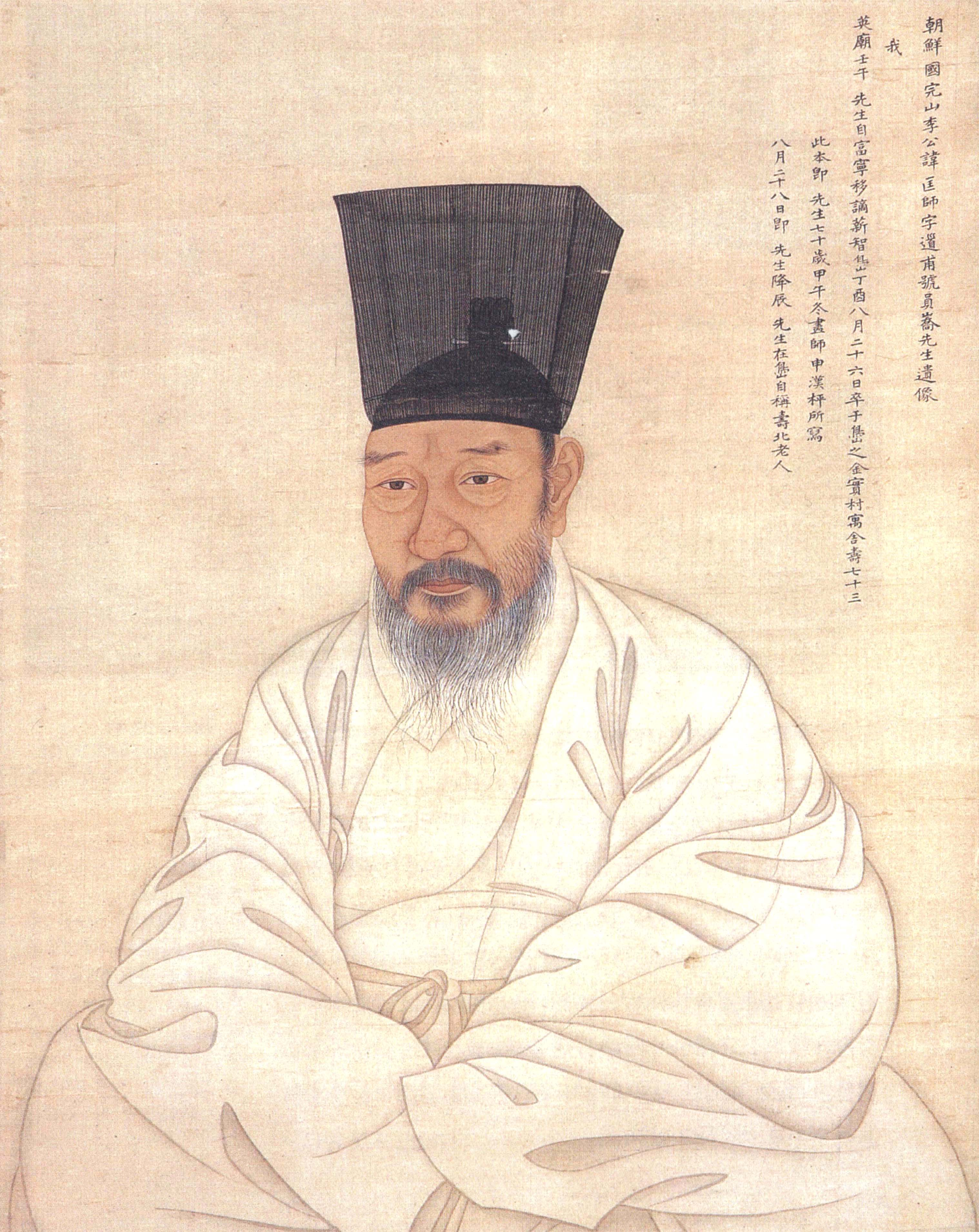 Portrait of Yi Gwang-sa